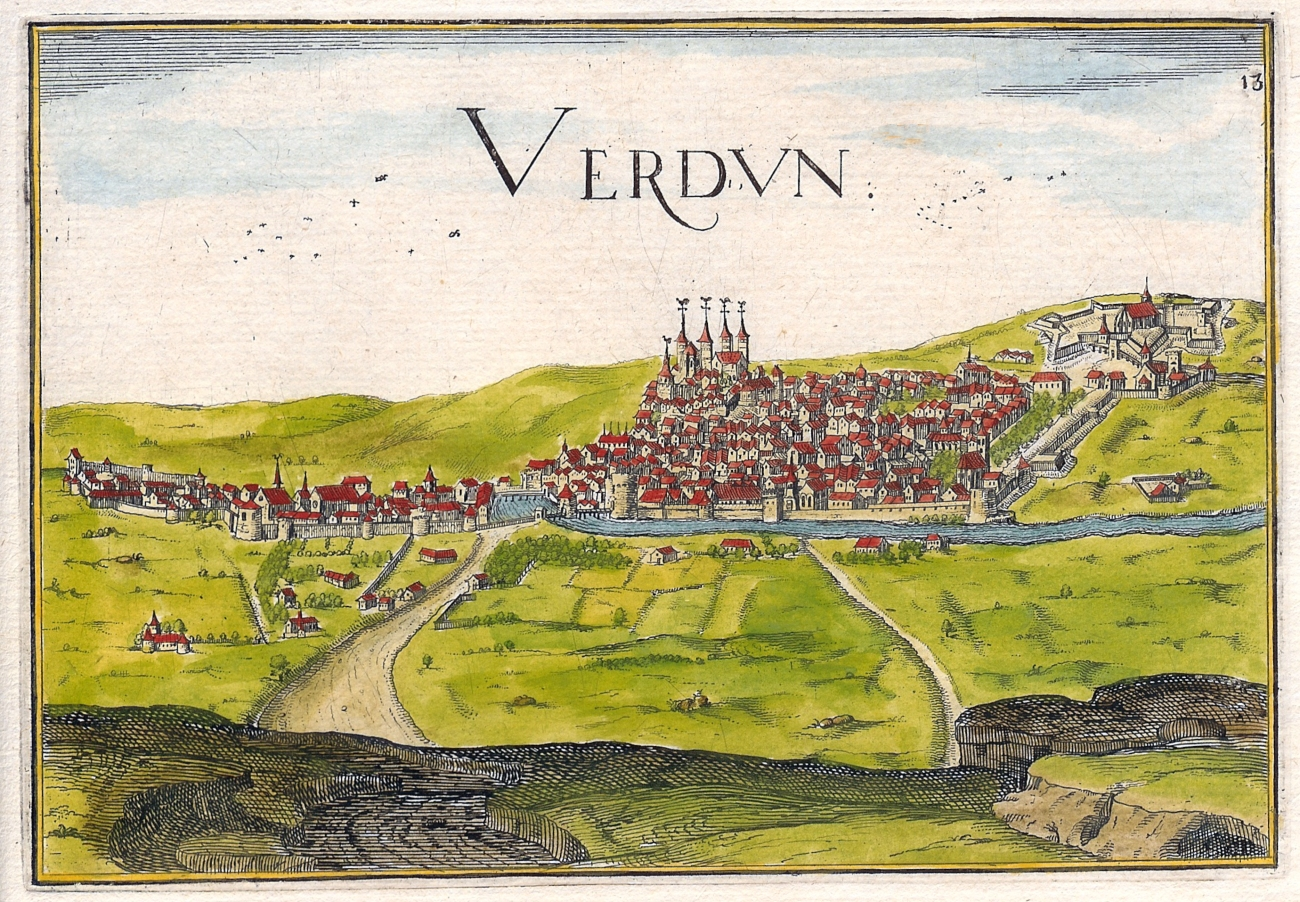 Page from 1638 atlas.